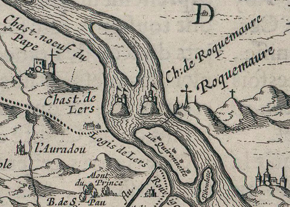 Detail from a map showing the Principality of Orange and the Comtat Venaissin. The Château de Roquemaure and the Château de Lhers are shown within the Rhône. Note that North is at the bottom of the map.